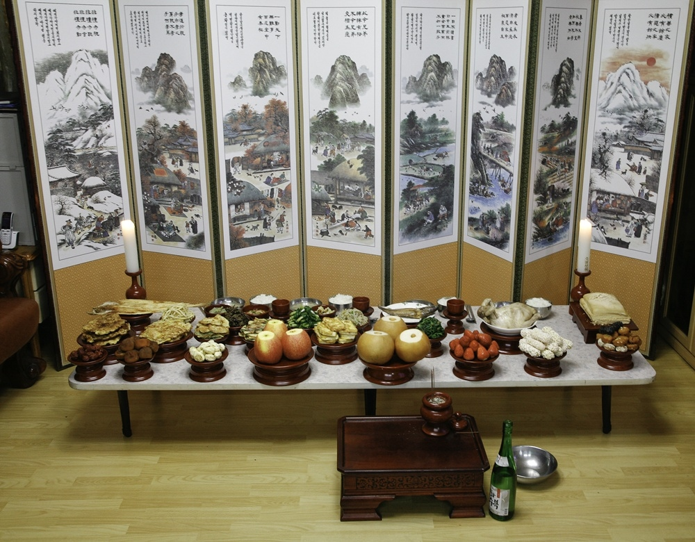 charye-sang, table setting for ancestor worship ceremony